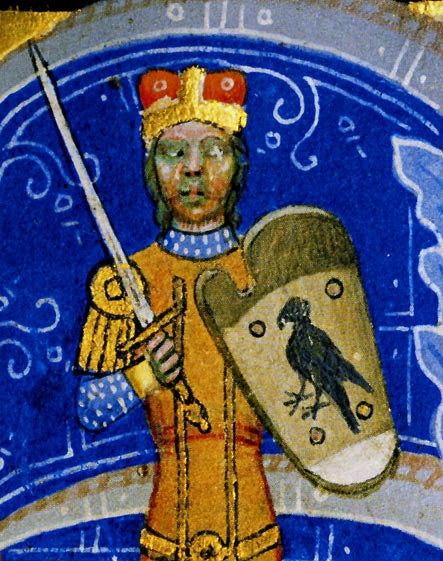 Árpád of Hungary